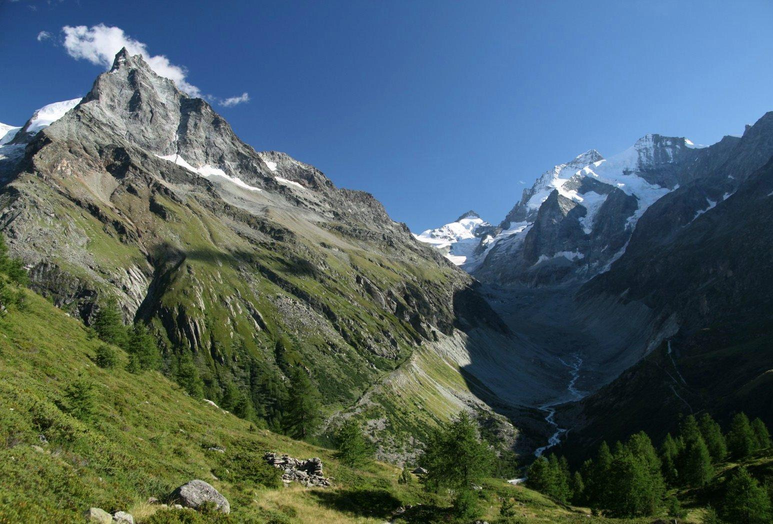 Val de Zinal, Valais. Besso on the left, Dent Blanche and Grand Cornier on the right.